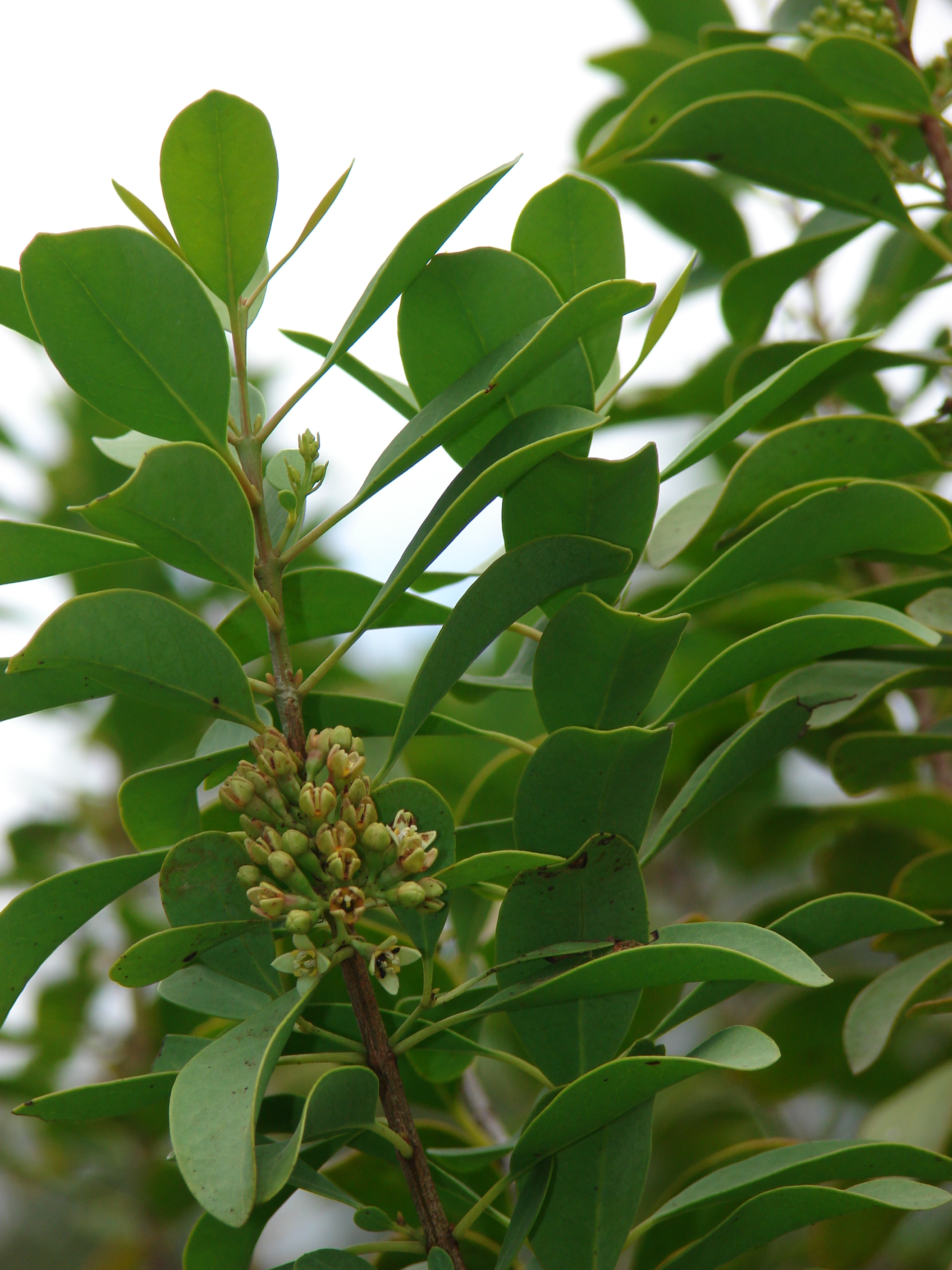 Santalum ellipticum (flowers and leaves). Location: Maui, Ulupalakua